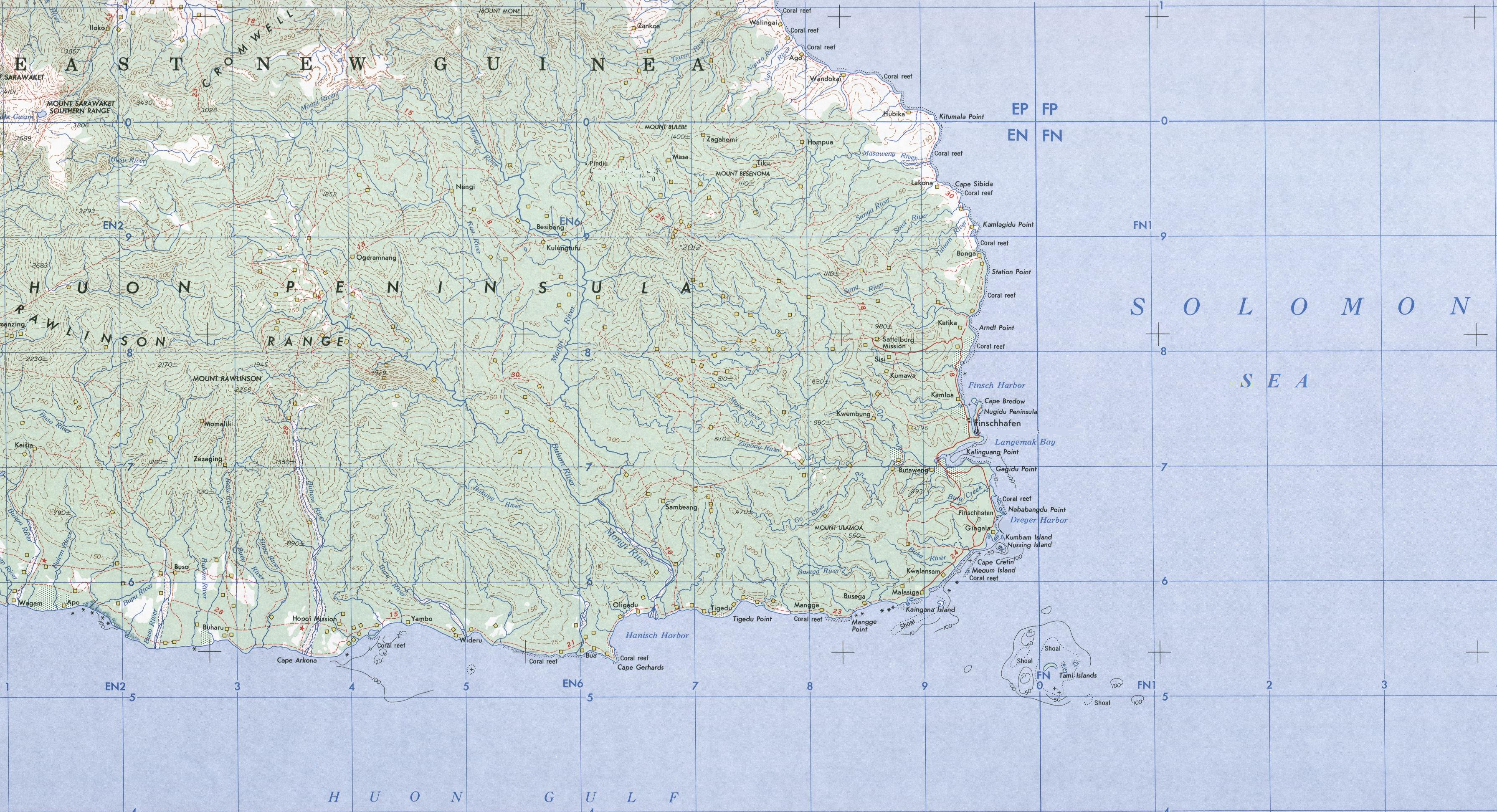 Historical Map